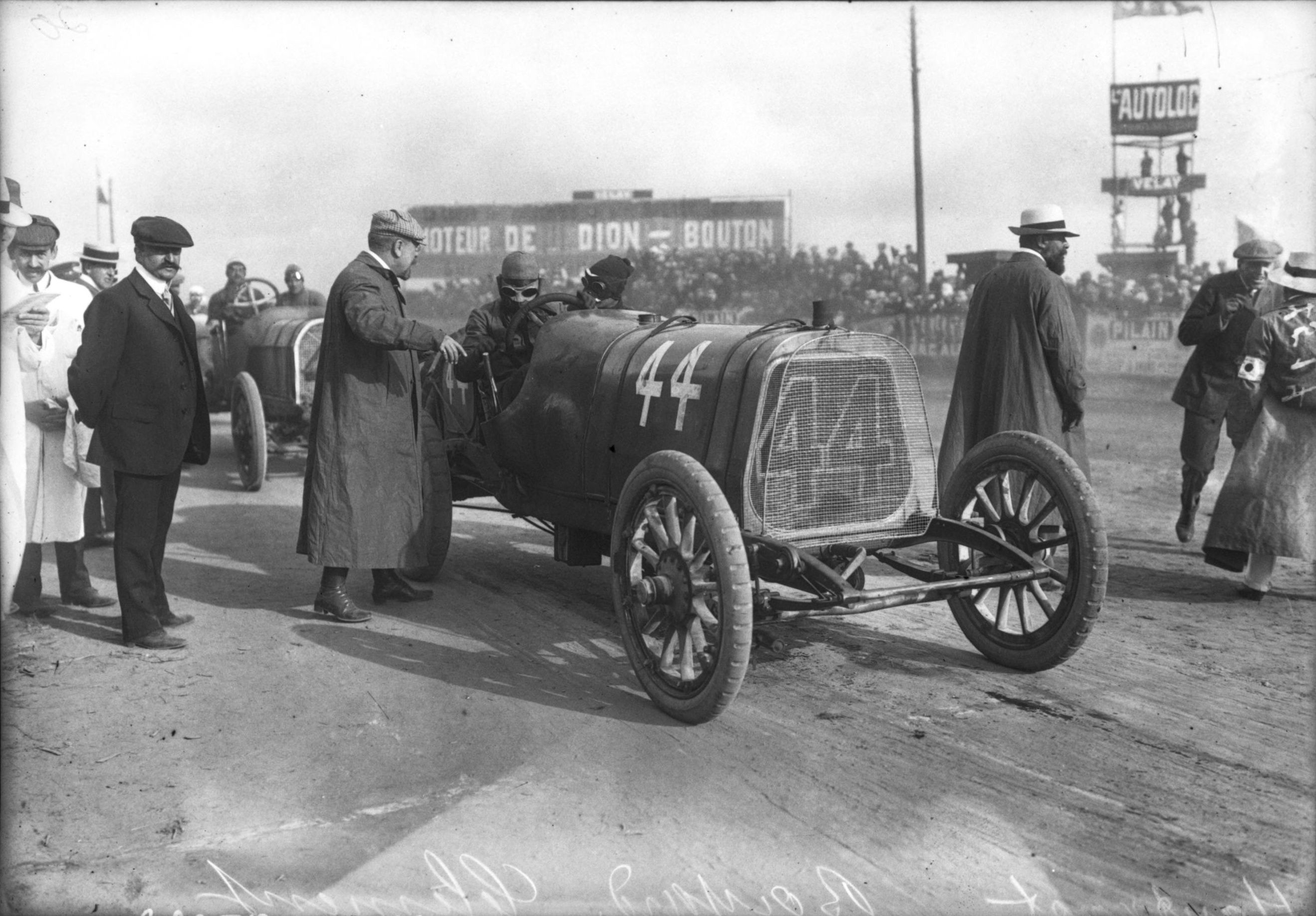 Lucien Hautvast in his Clément-Bayard at the 1908 French Grand Prix at Dieppe.